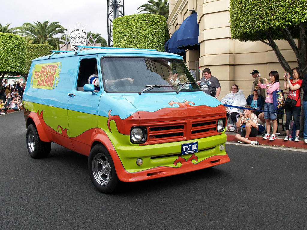 The Mystery Machine during the All-Star Parade at Warner Bros. Movie World.